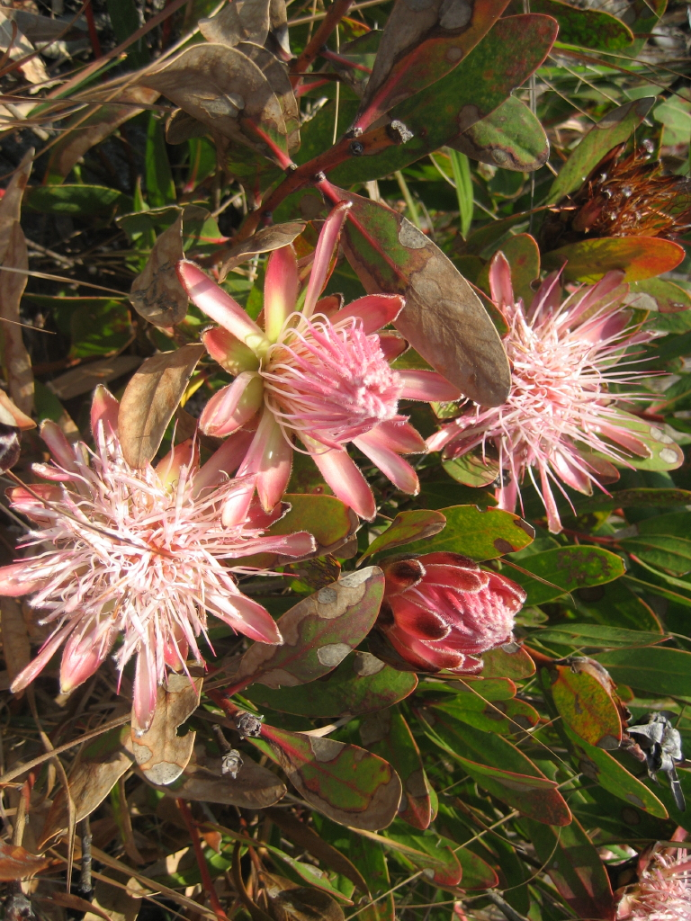 Pink-flowering Protea wentzeliana in the Chimanimani Mountains of Mozambique. 1800 m.a.s.